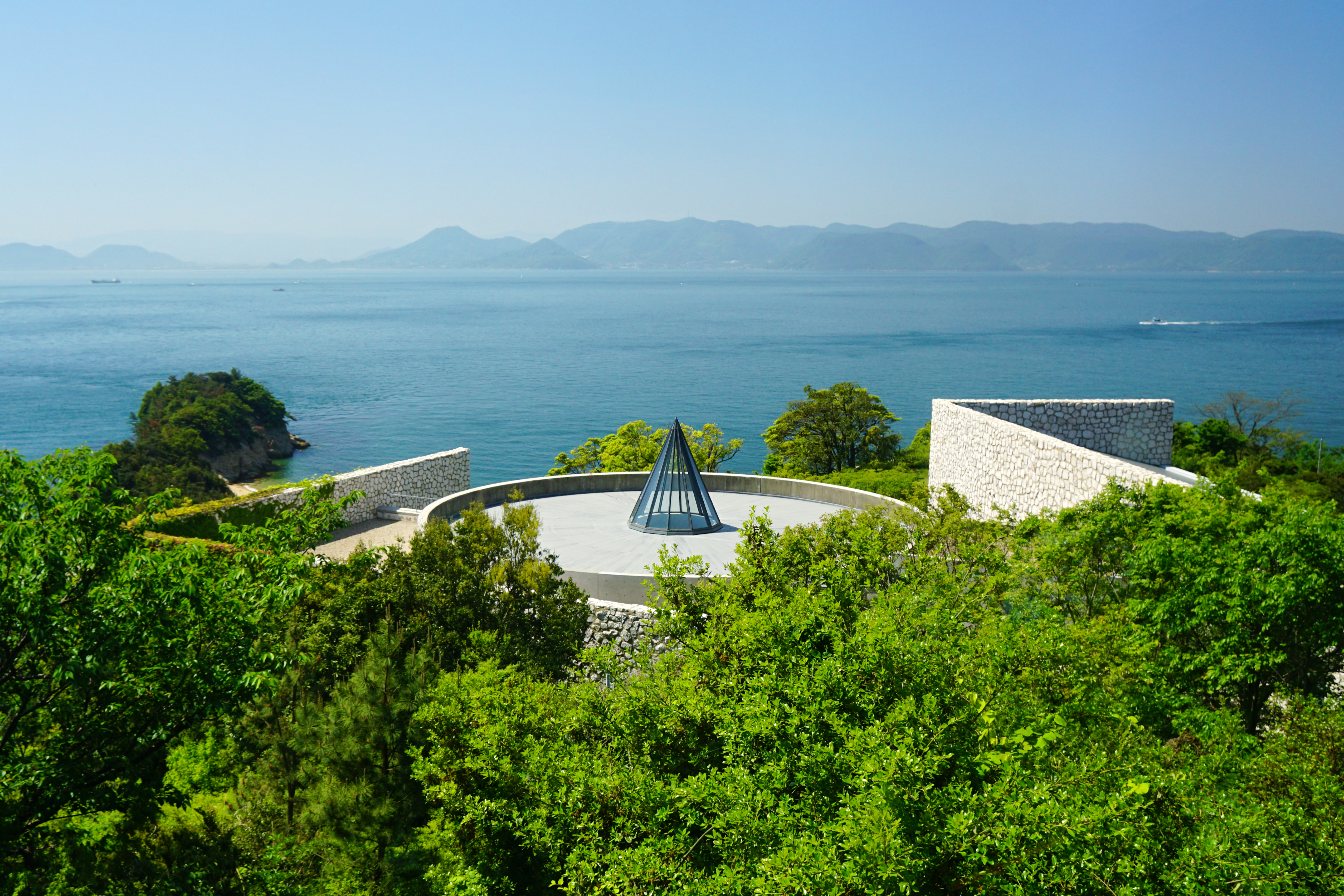 Benesse House "Museum" of Benesse Art Site Naoshima in Naoshima, Kagawa prefecture, Japan